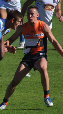 2012 Round 7. GWS Giants vs Gold Coast Suns. Manuka Oval.